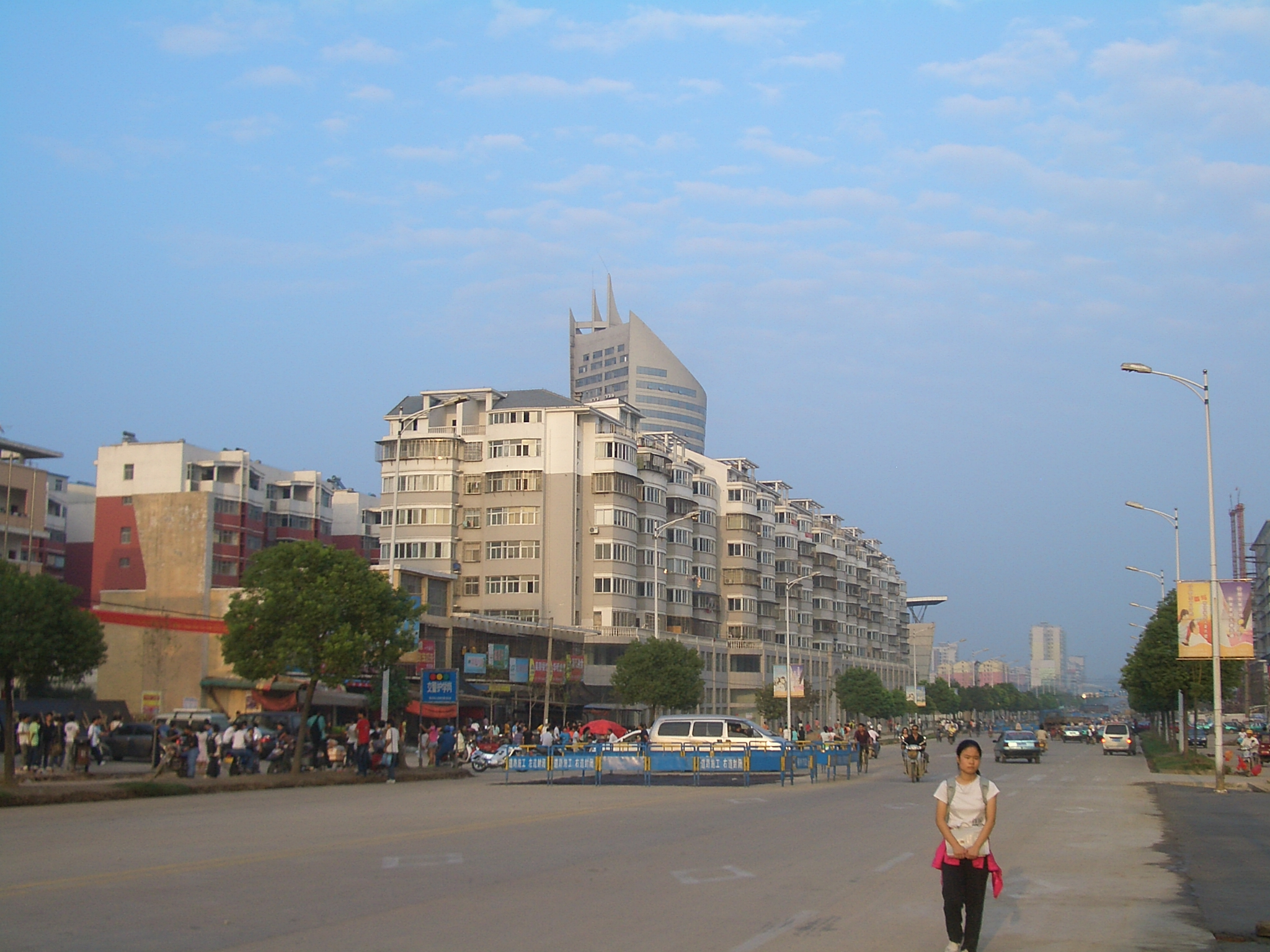 A modern street in Ezhou.